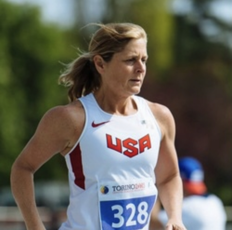 Connie Gardner runs for the USA in an International race in Italy, 2016.